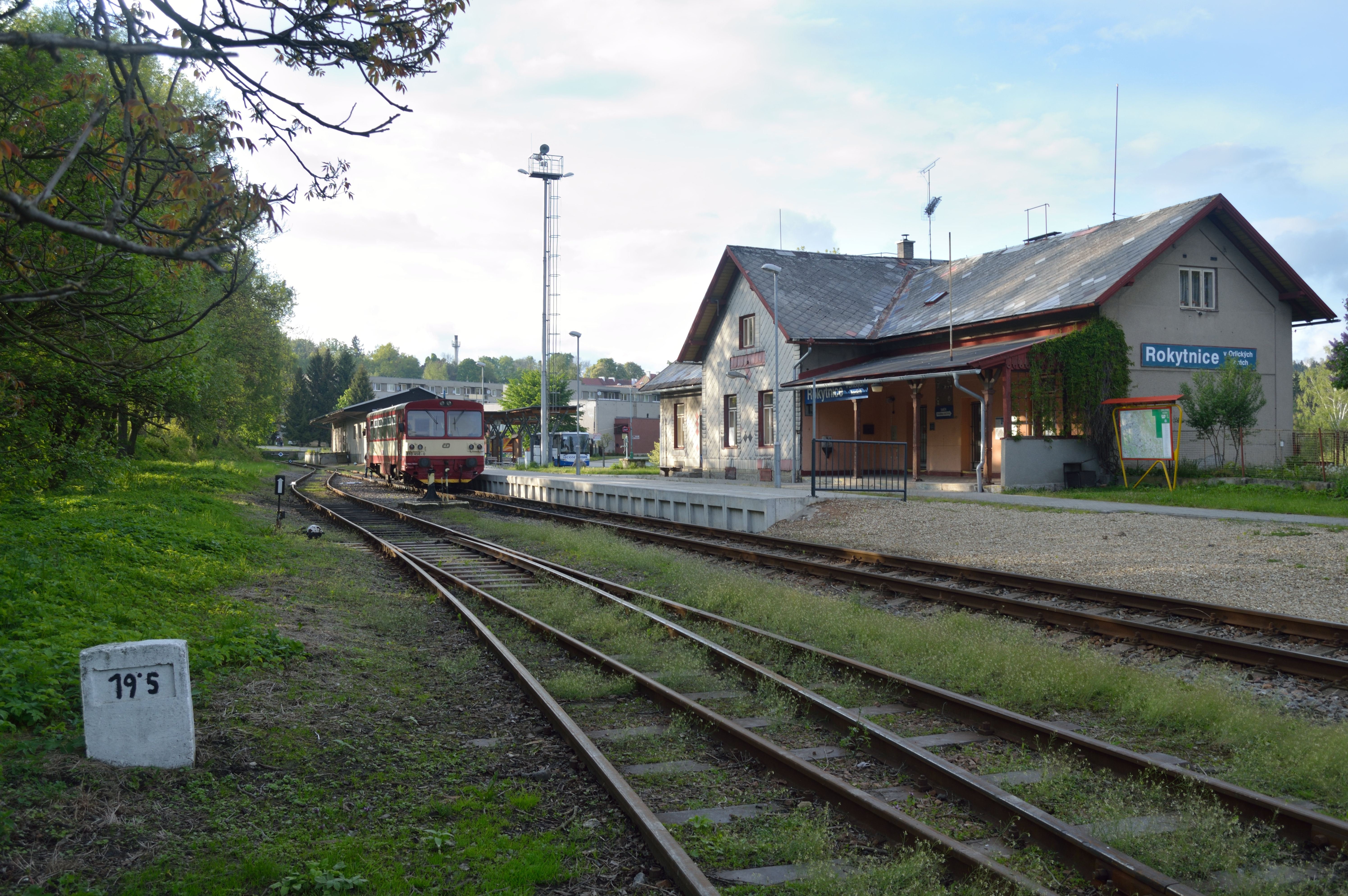 Final branch covered on 13 May 2014 ended up here at Rokytnice v Orlicí horách. Seen during a 30 or so minute layover in the warm evening sunshine, 810.458 waits to depart on train Os25241, 19:28 Rokytnice v Orlicí horách to Doudleby nad Orlicí.